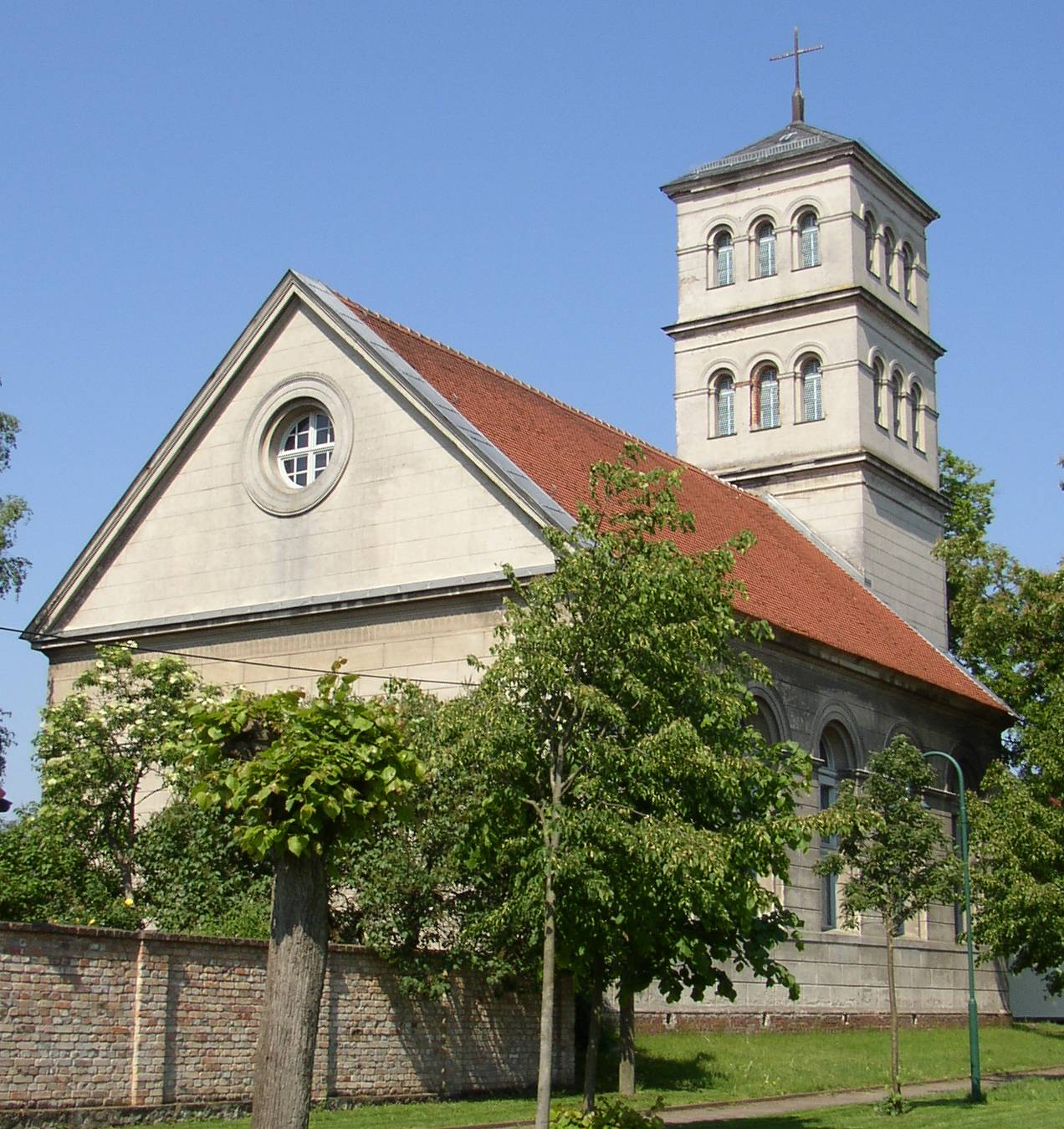 Church in Fehrbellin-Tarmow in Brandenburg, Germany